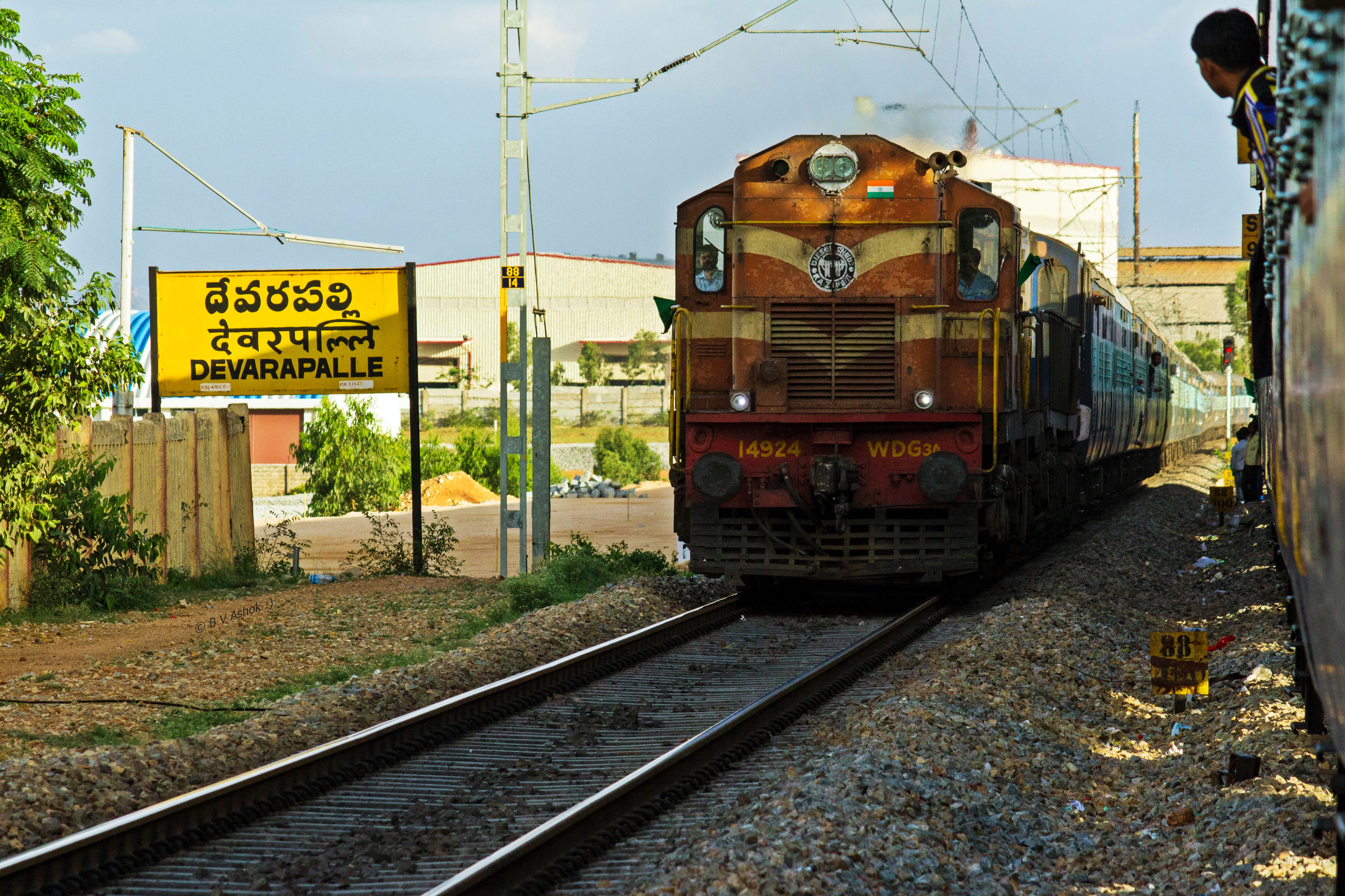 KZJ WDG-3A twins led by 14924 with 12193 Yeshvantapur - Jabalpur Superfast Express cruising past Devarapalle at mps overtaking 17604 Yeshvantapur Kacheguda Prasanthi nilayam Express...